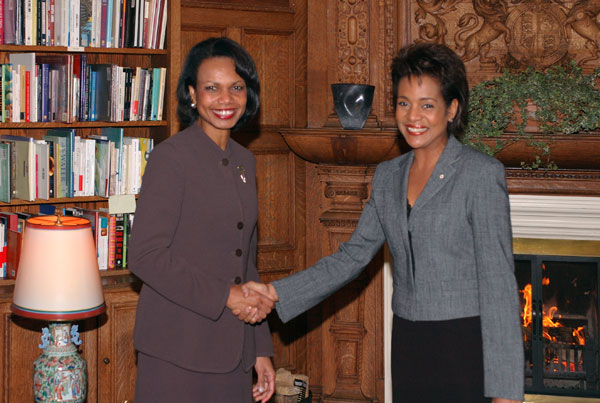 During her visit to Canada October 24-25, Secretary Rice paid a courtesy call on Governor General Michaëlle Jean